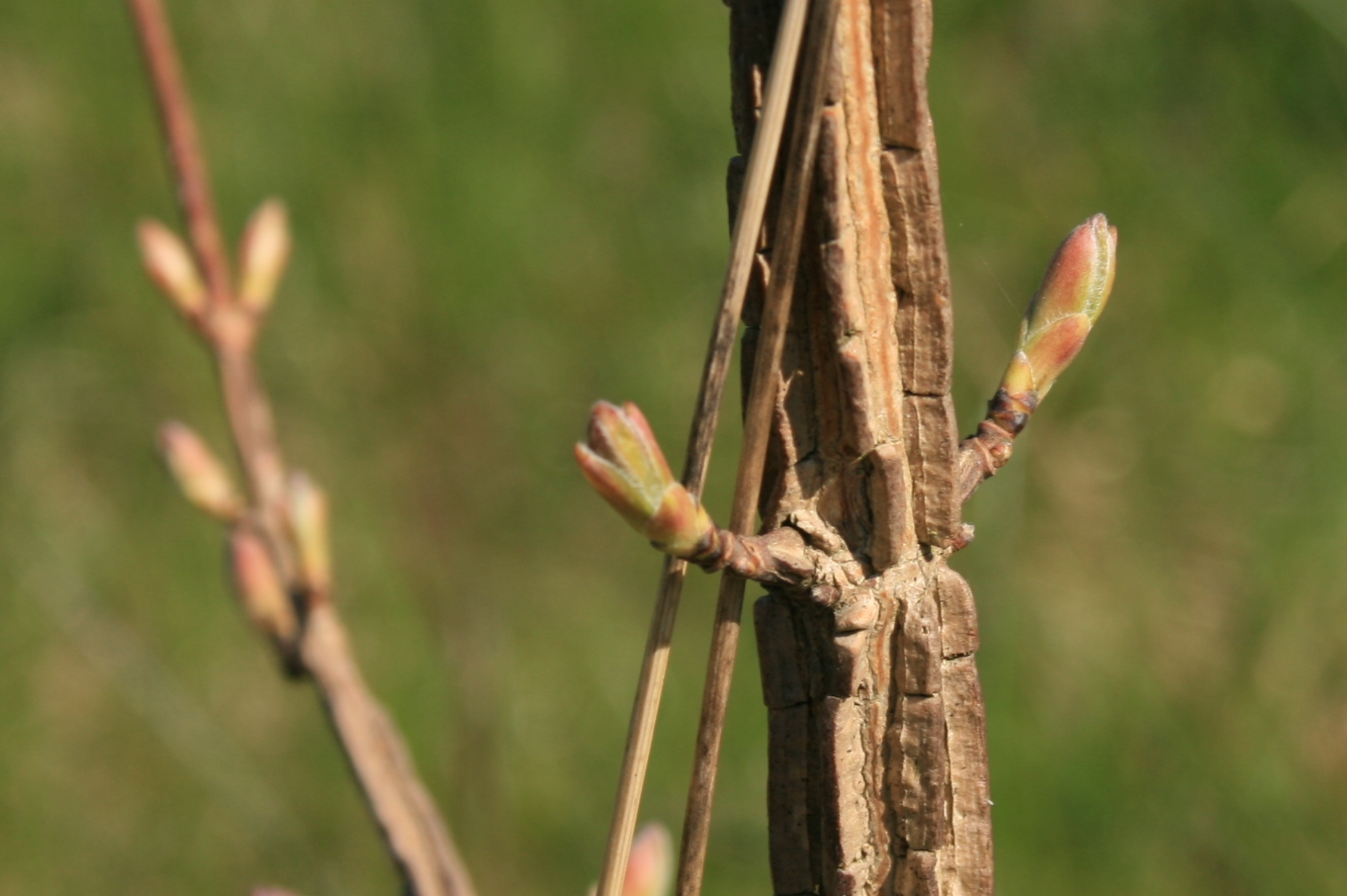 Acer campestre often develops bark with these cork-wings